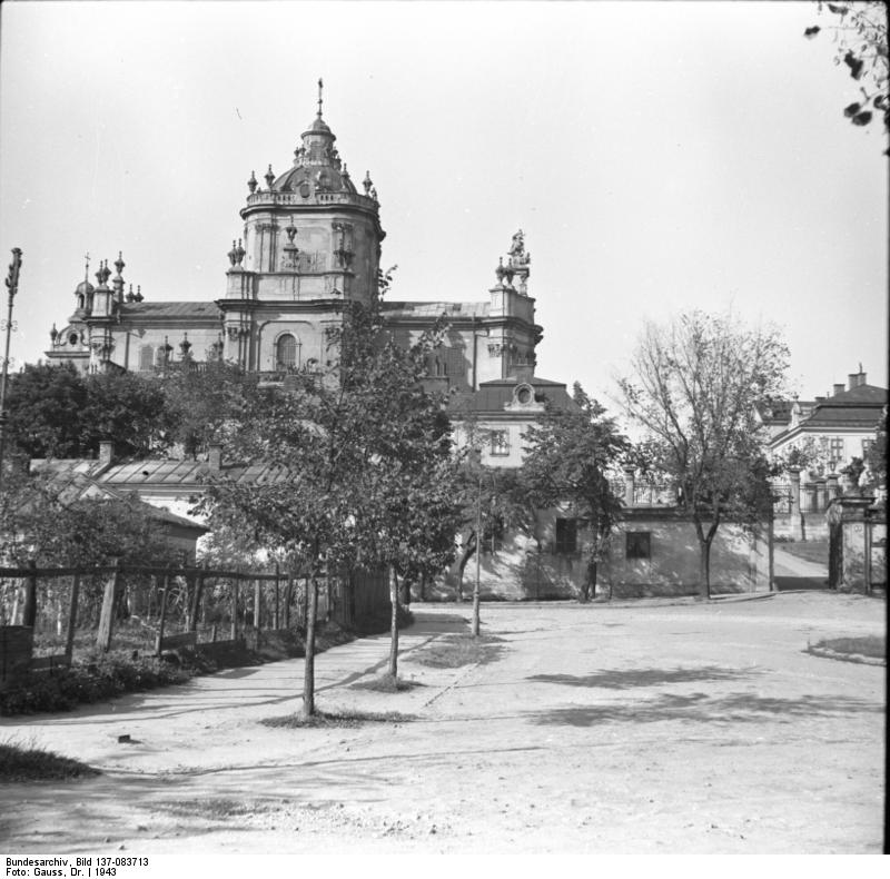 St. George's Cathedral, St. George's square, Lviv